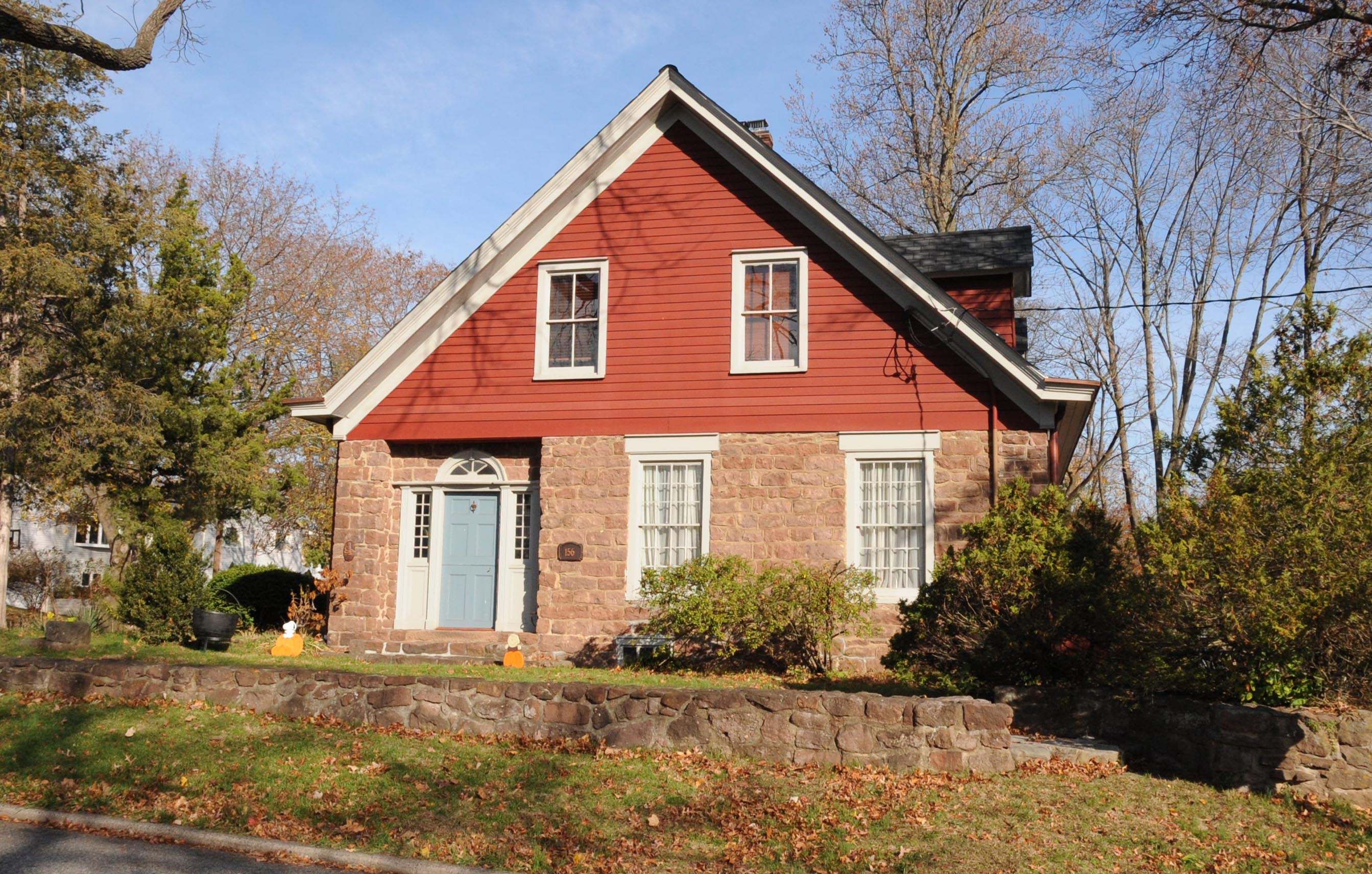 BUILT IN 1787; HOUSE WAS PLUNTED BY BRITISH AND COLONIALS DURING THE REVOLUTIONRTY WAR. DURIE WAS A BLACKSMITH AND A FARMER